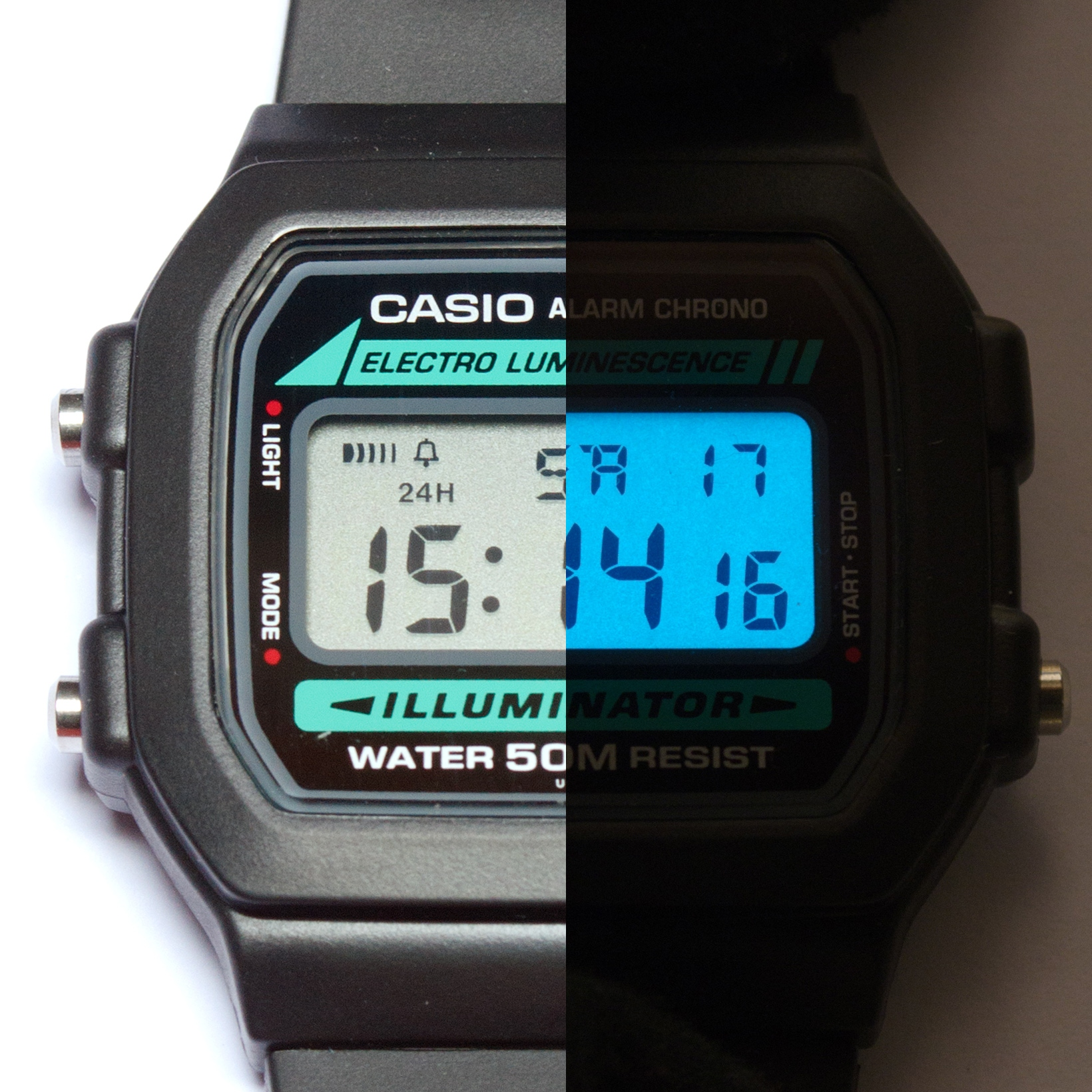 Casio W-86 / W86 / W-86-1VQES "Illuminator" digital watch. Split composite image showing watch in normal conditions and in dark with electroluminescent backlight activated.